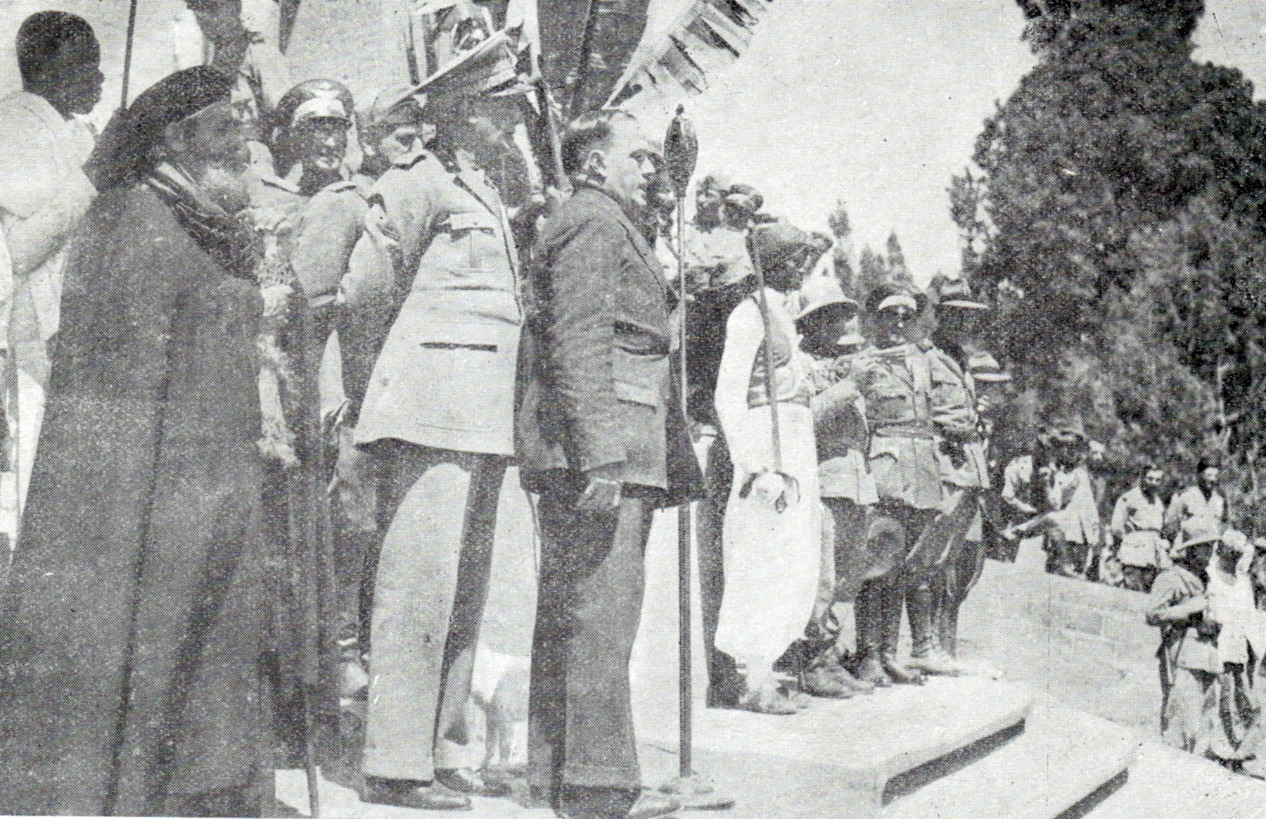 Marshal Graziani with Abuna Qerellos IV at the Gibi (palace) shortly before the assassination attempt on his life.